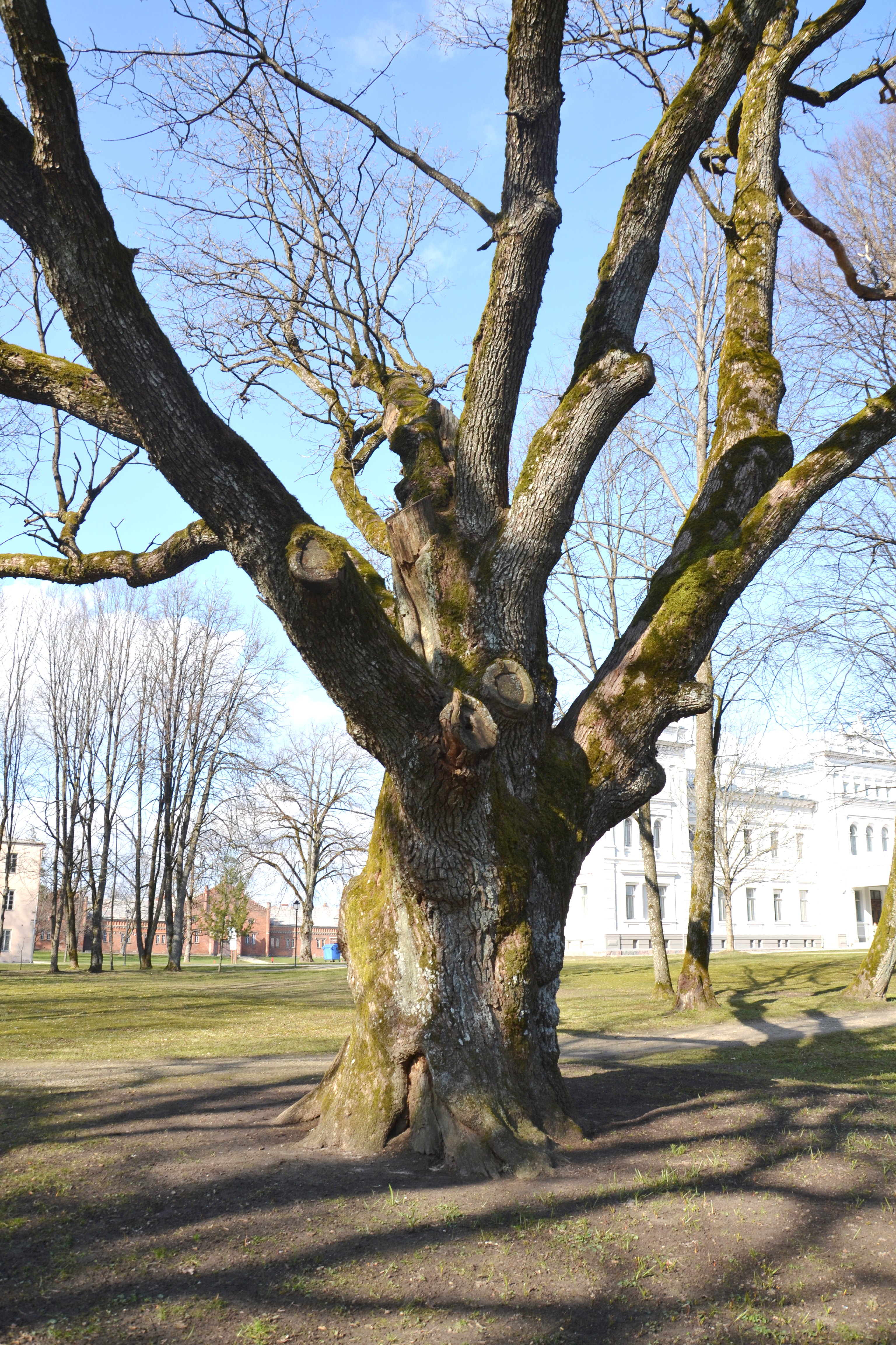 Oak of Perkunas, Plunge town, Lithuania